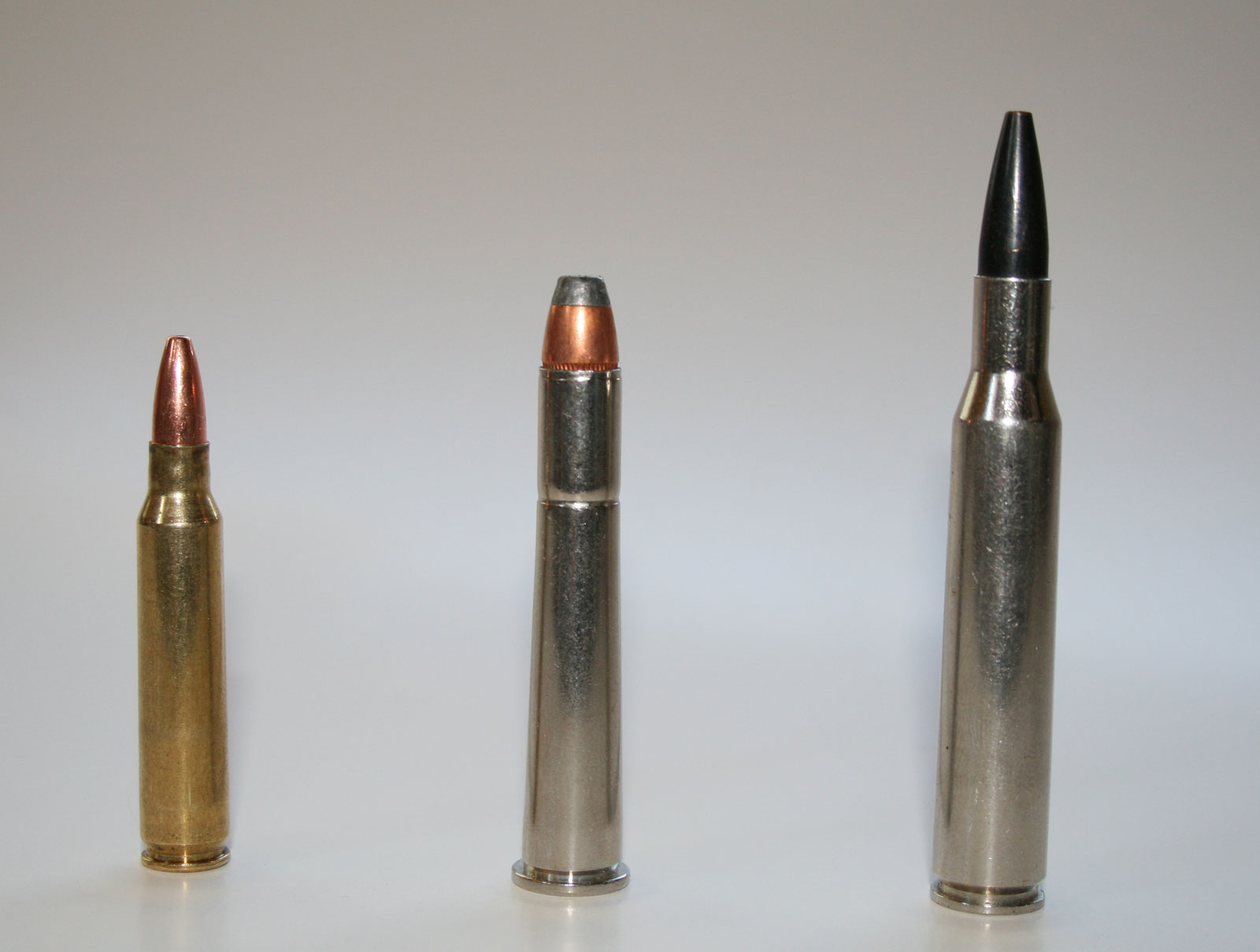 A picture of the .32-40 Ballard cartridge between two more common rifle cartridges, the .223 Remmington on the left and the .270 Winchester on the right.